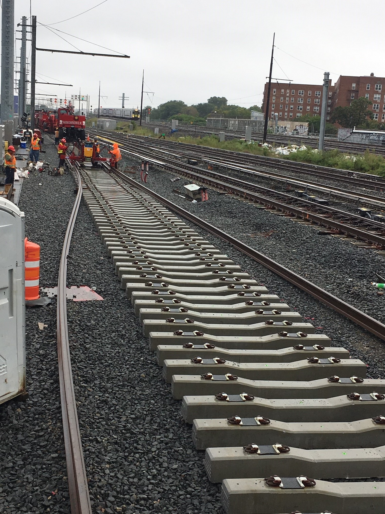 Positioning rail for the newly installed westbound bypass track in Harold Interlocking. (CH057D, 09-26-2018)